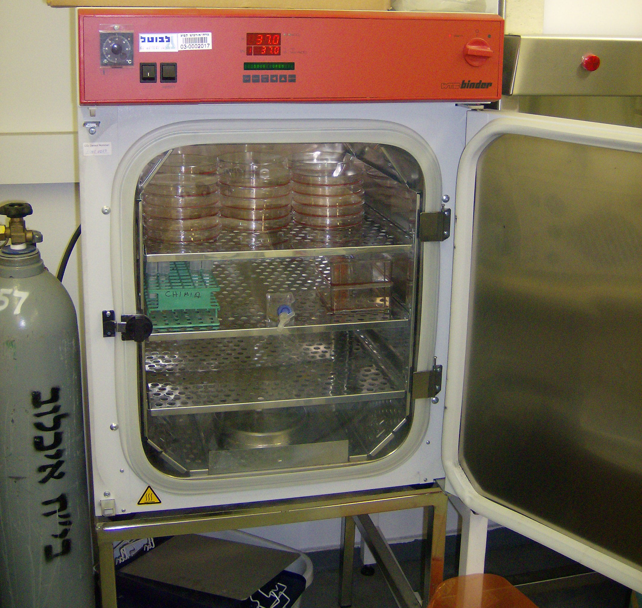 Cell line incubator, preserves constant conditions of 37 C, 50% humidity and 5% CO2 photographed at the Tel Aviv medical center, Tel Aviv, Israel